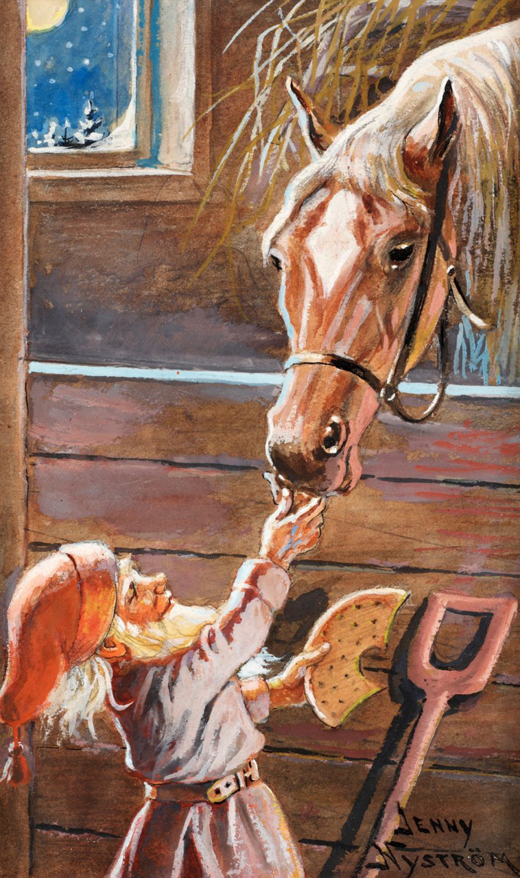 Jenny Nystrom. God Jul.